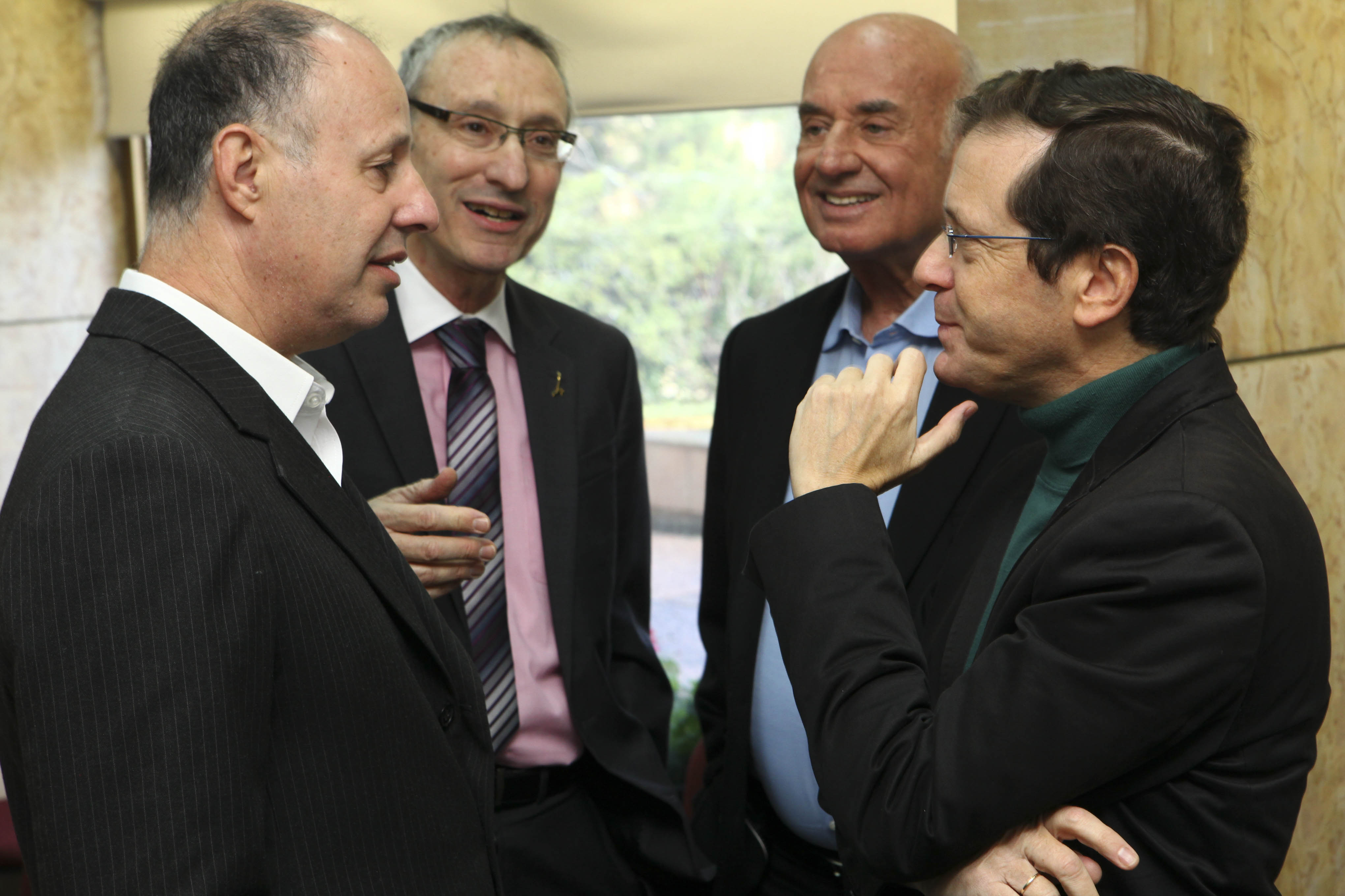 Senior representatives of Israel’s major political parties addressing scores of journalists and diplomats at The Israel Project’s pre-election foreign-policy debate. (Mati Milstein/The Israel Project)